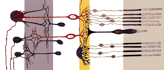 Axial organization of the retina